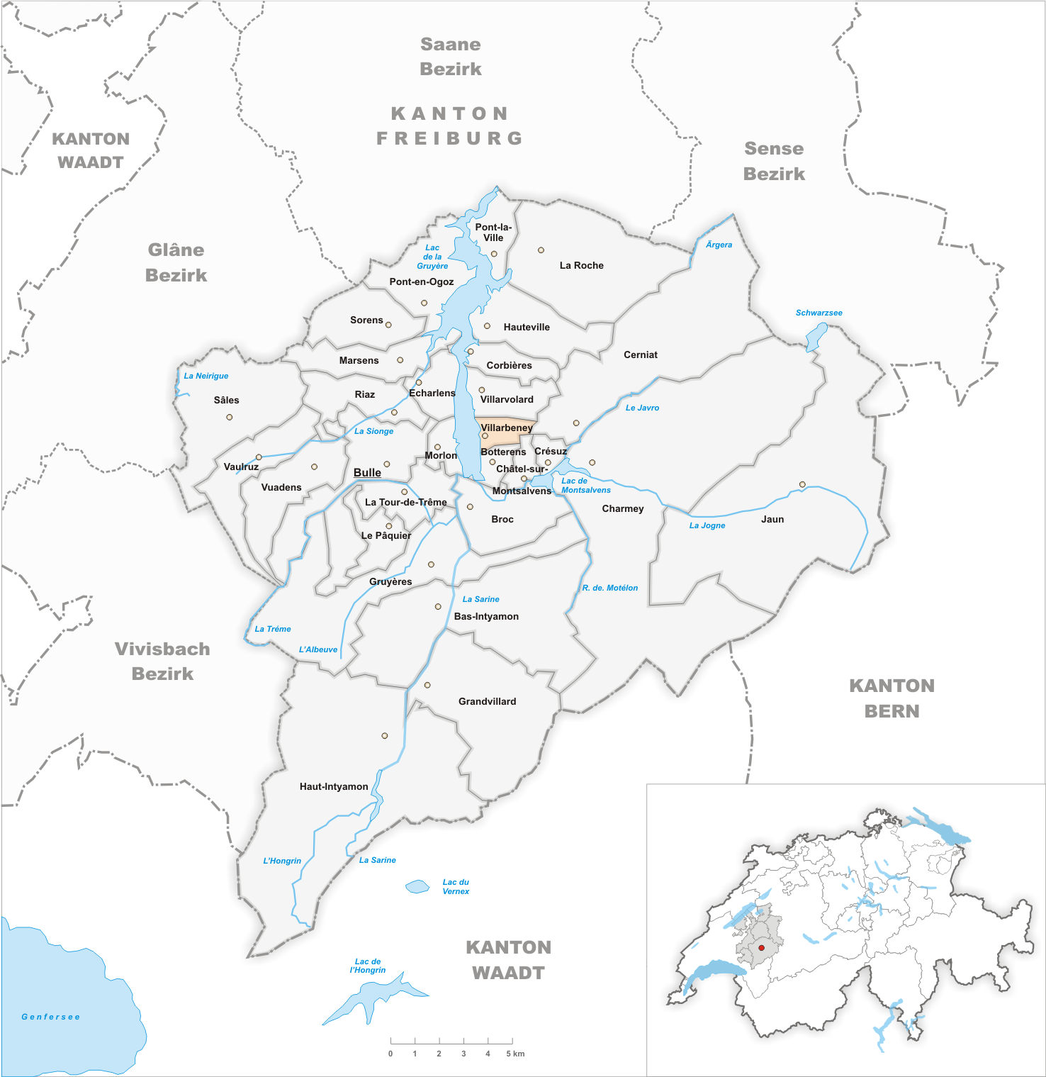 Municipality Villarbeney Artist: Tschubby